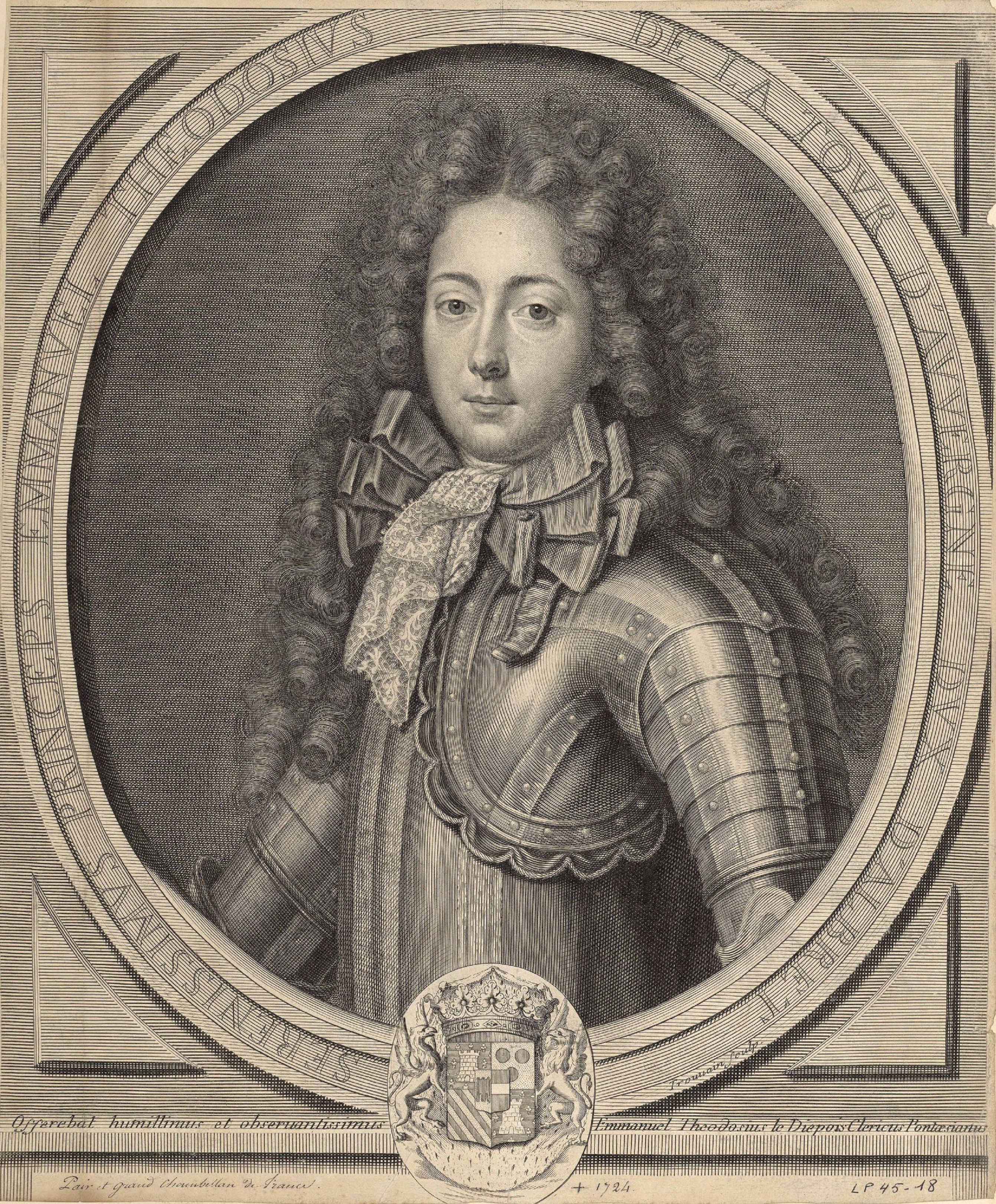 Portrait of Emmanuel Théodose de La Tour d'Auvergne (1668–1730) while the Duke of Albret future Duke of Bouillon